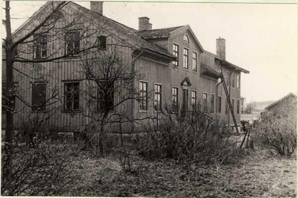 Waterloo, a mansion in Gothenburg, Sweden